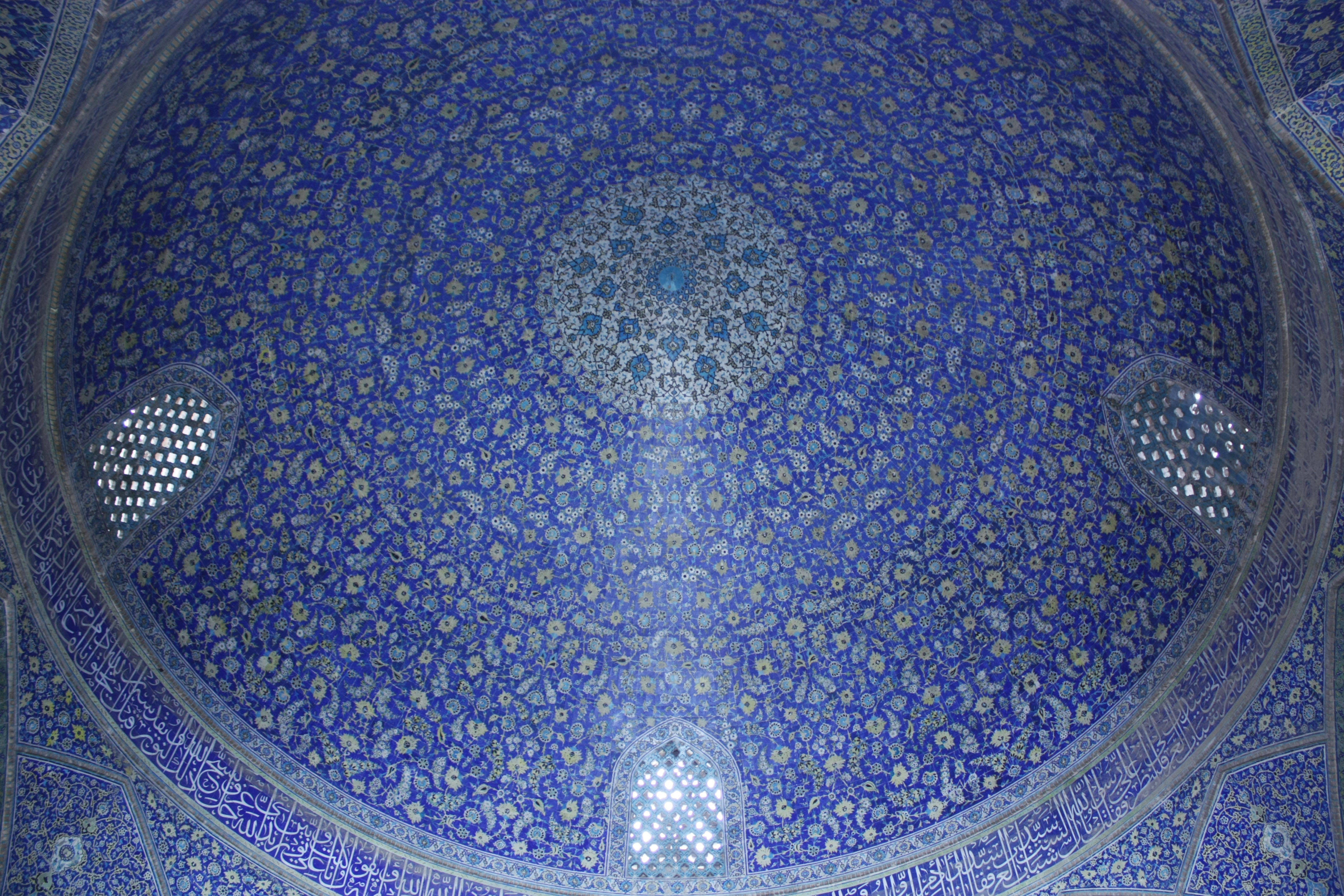 Imam Mosque Isfahan